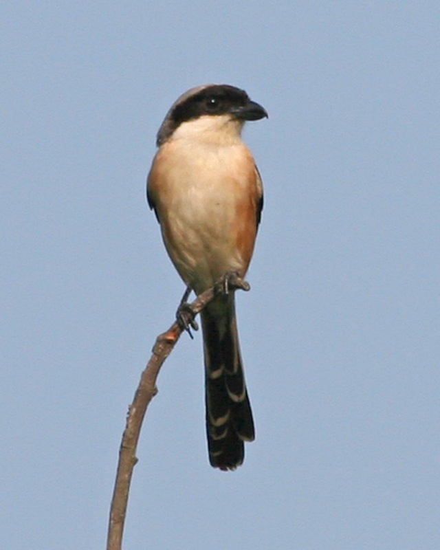 Long-tailed Shrike Lanius schach bentet Unfortunately it flew away instead of turning to show the characteristic white wing spot. Location: Park near Semarang, Central Java, Indonesia May 14, 2005 Alt. names: Black-capped Shrike, Black-headed Shrike, Dusky Shrike